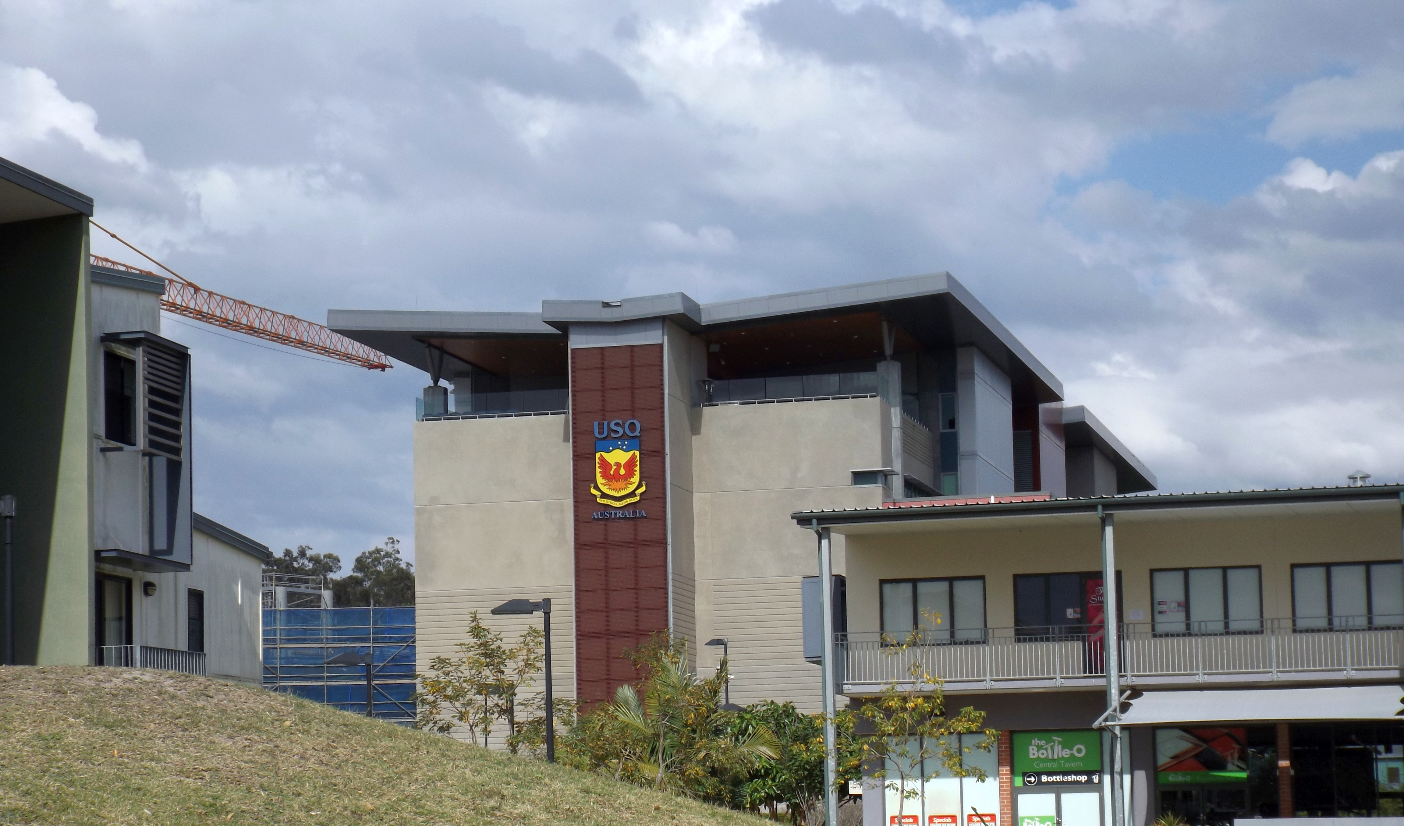 Photo of University of Southern Queensland campus buildings at Springfield, Ipswich, Queensland, Australia.